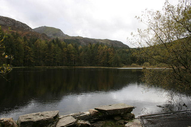 Llyn Llywelyn A southwesterly view of Llyn Llywelyn in the Beddgelert forest with Moel Lefn in the distance.